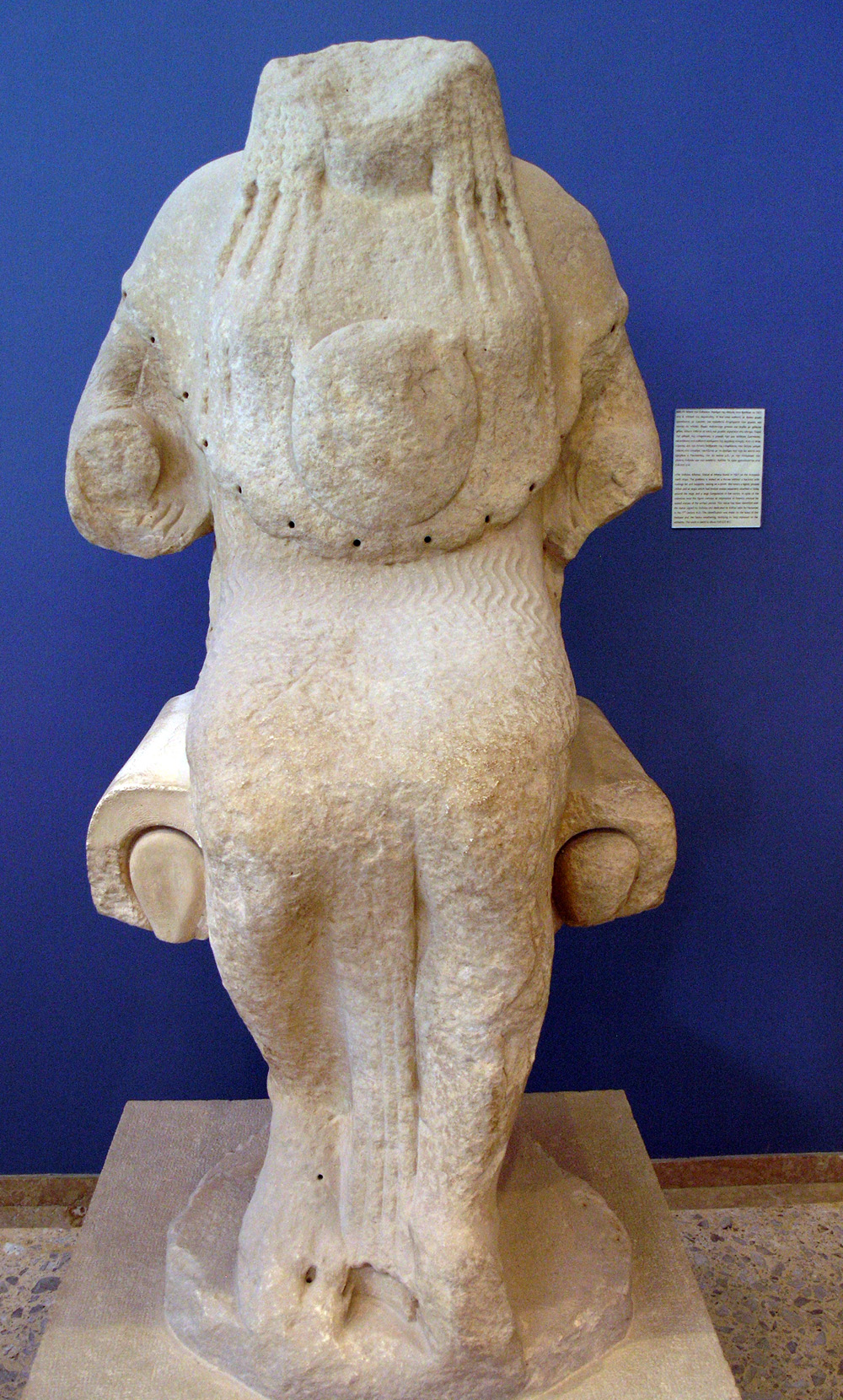 Statue of Athena seated on a throne. Work of the sculptor Endoios, dedicated by Callias, and described by Pausanias. ca. 530-525 BC